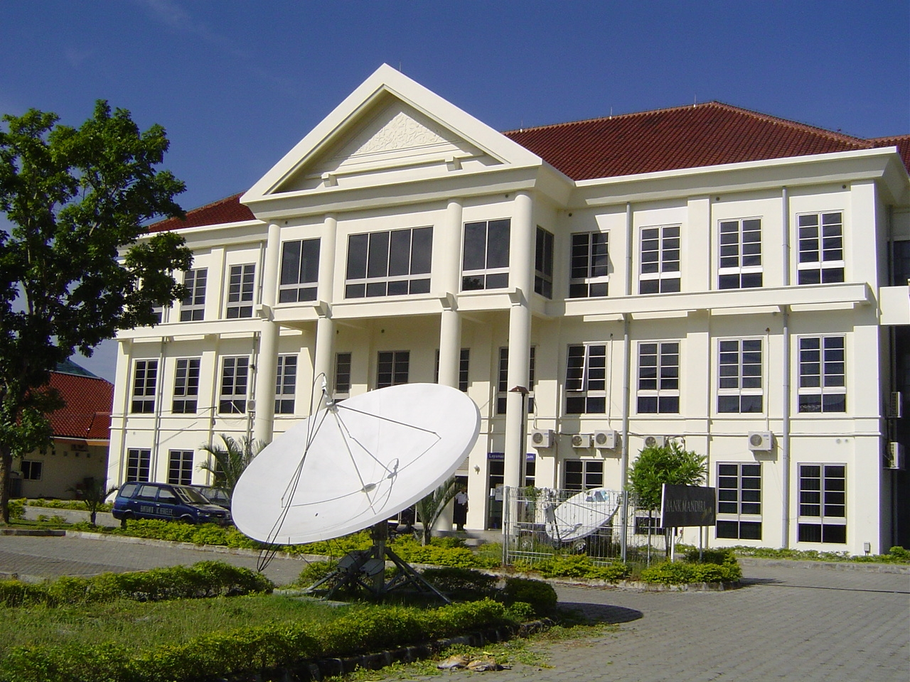 SOI Asia Project (satellite) located in UNSYIAH